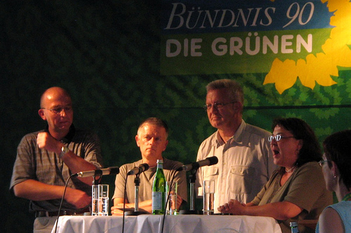 A panel at the "Regionalkonferenz Baden-Württemberg". From left to right: Andreas Braun (co-chair of the Greens of Baden-Württemberg), Fritz Kuhn (chair of the federal parliament party of Bündnis 90/Die Grünen), Winfried Kretschmann (chair of the Baden-Württemberg parliament party), and Petra Selg (co-chair of the Greens of Baden-Württemberg)